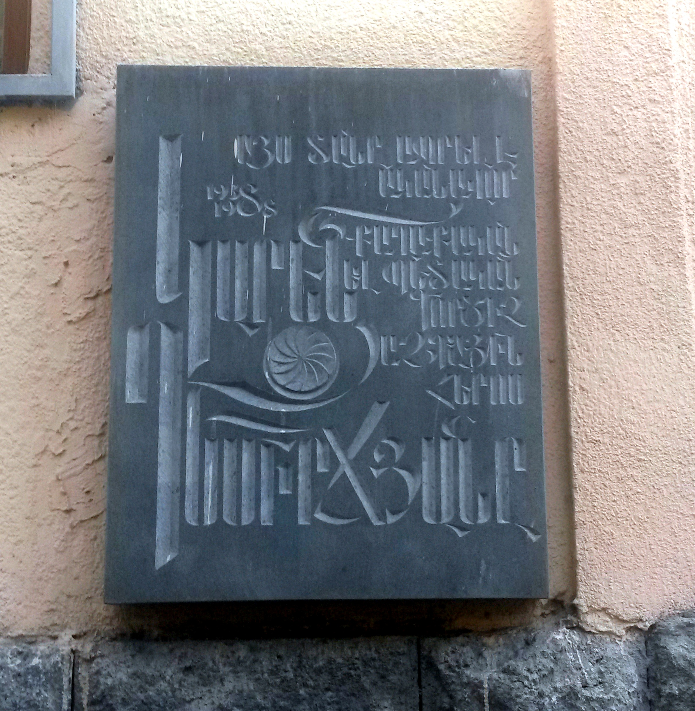 Karen Demirchyan's plaque on Tpagrichneri street, Yerevan